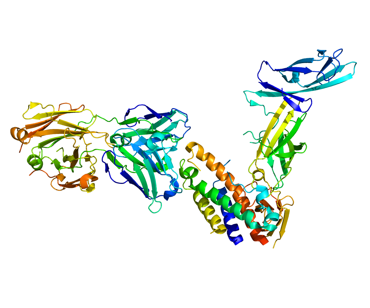 Structure of protein IL23A.Based on PyMOL rendering of PDB 3D85.